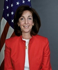 Roberta S. Jacobson